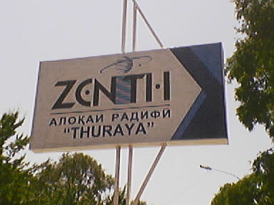 Procured from a friend who releases into the public domain. Modifications by me.